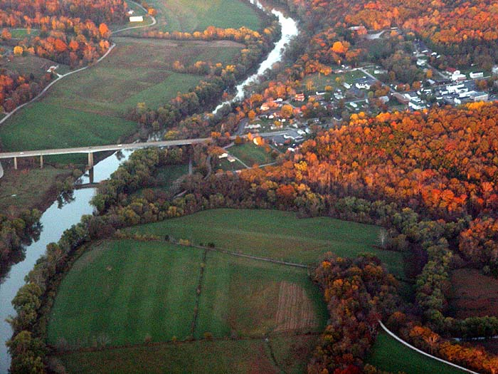 Aerial photo of Brownsville, KY taken around 2002 by Jason Minton.